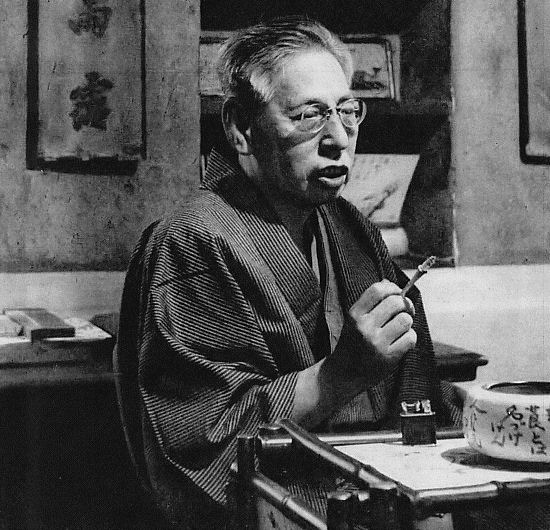 Haruo Sato